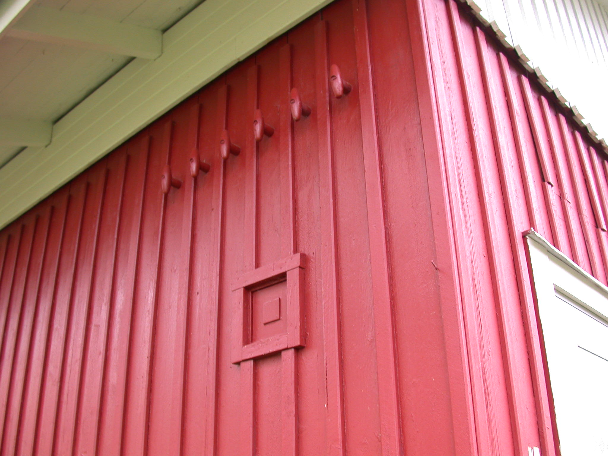 Military cable entry (with cable hooks) on a telecom repeater station, Sweden.